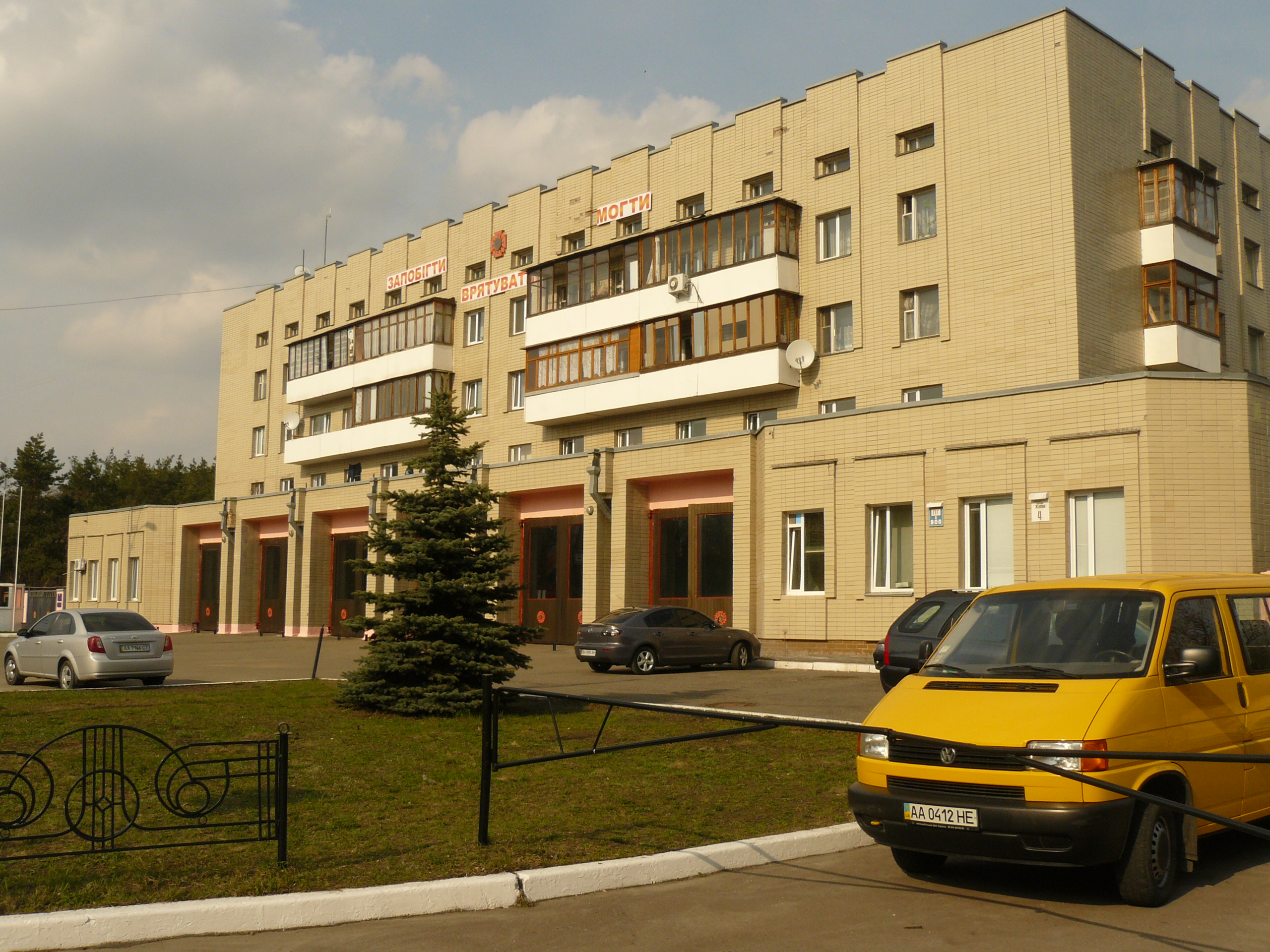 Kyiv Fire station №33 situated on Marshala Zhukova str, 4a